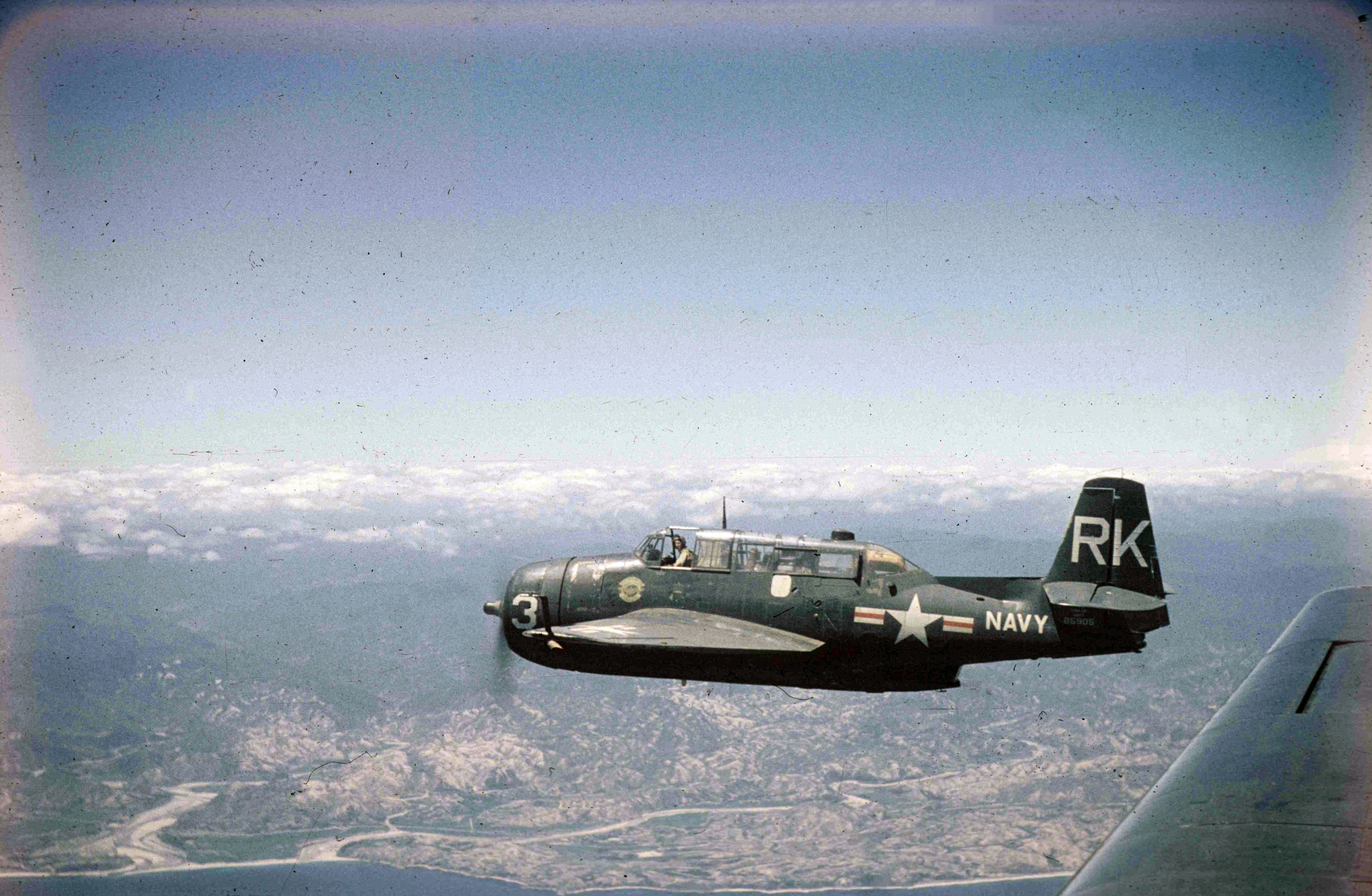 A U.S. Navy Grumman TBM-3R Avenger (BuNo 85905) of transport squadron VR-23 in flight over Korea, 25 June 1953.